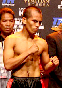 Milan pose during the official weigh-in bouts agains Seran at Macau